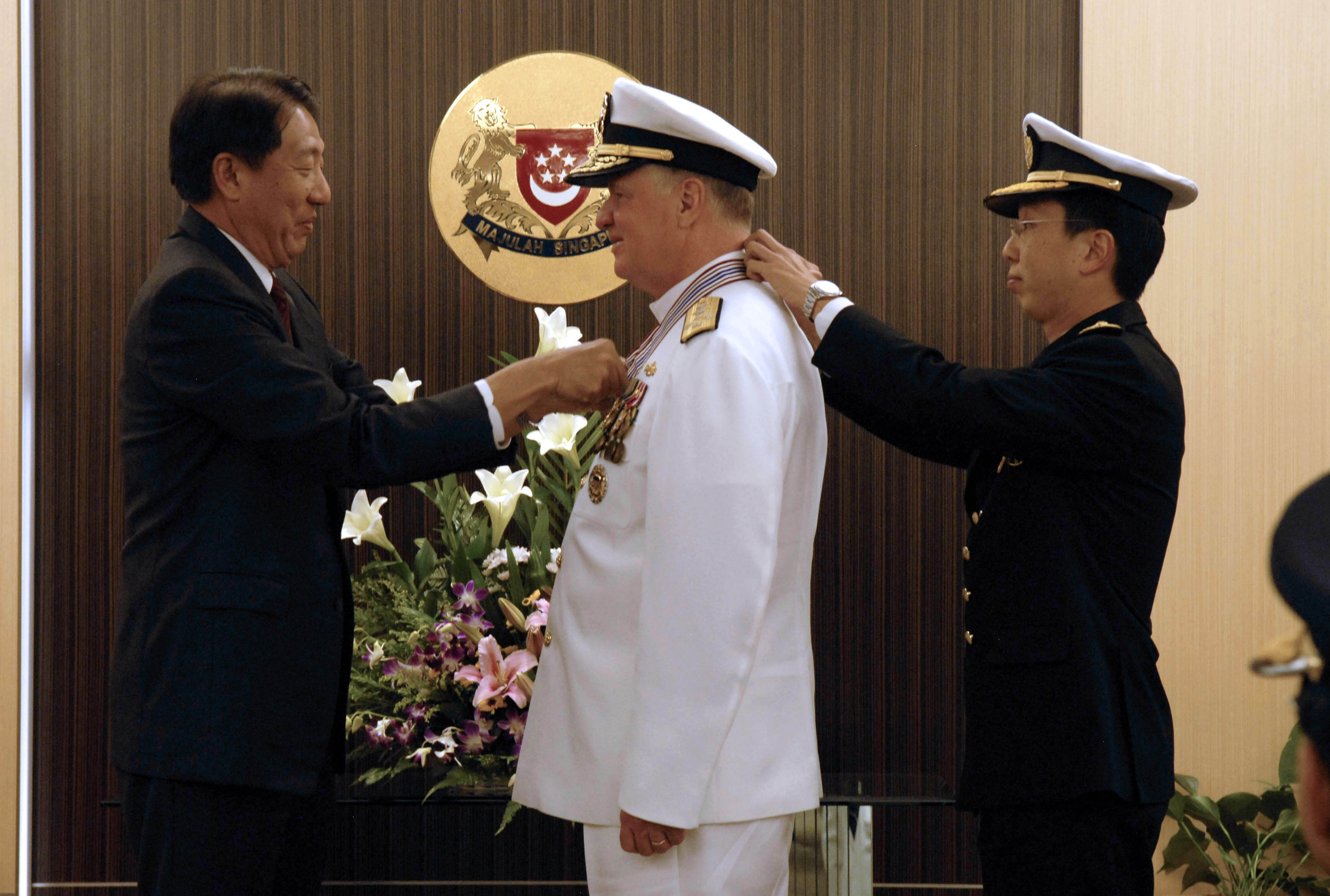 SINGAPORE (Aug. 18, 2008) Chief of Naval Operations (CNO) Adm. Gary Roughead, middle, is presented the Republic of Singapore's Meritorious Service Medal by Minister for Defense TEO Chee Hean, left, and Chief of Navy (CNV) Rear Adm. Chew Men Leong. Roughead, along with Master Chief Petty Officer of the Navy (MCPON) Joe R. Campa Jr., is completing a 10-day, round-the-world trip to visit Sailors, thank them for their contributions and hear their thoughts firsthand. (U.S. Navy photo by Mass Communication Specialist 1st Class Tiffini M. Jones/Released)